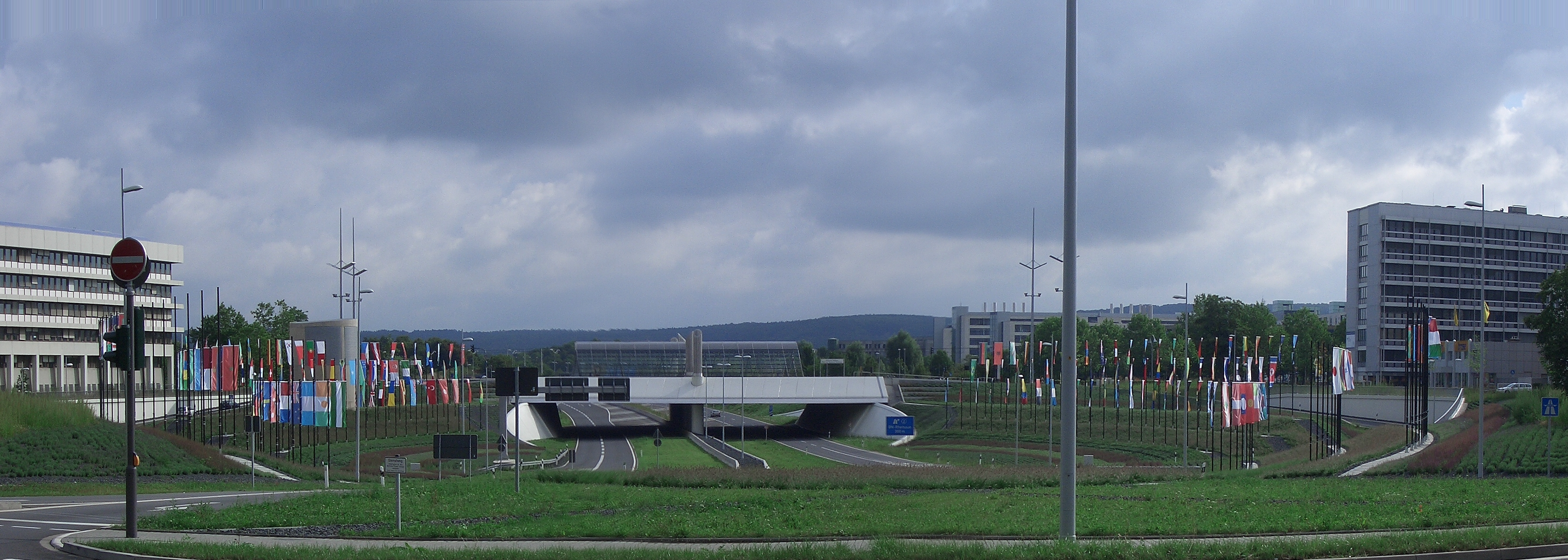 View of the junction of the federal motorway 562 with the Federal road 9.